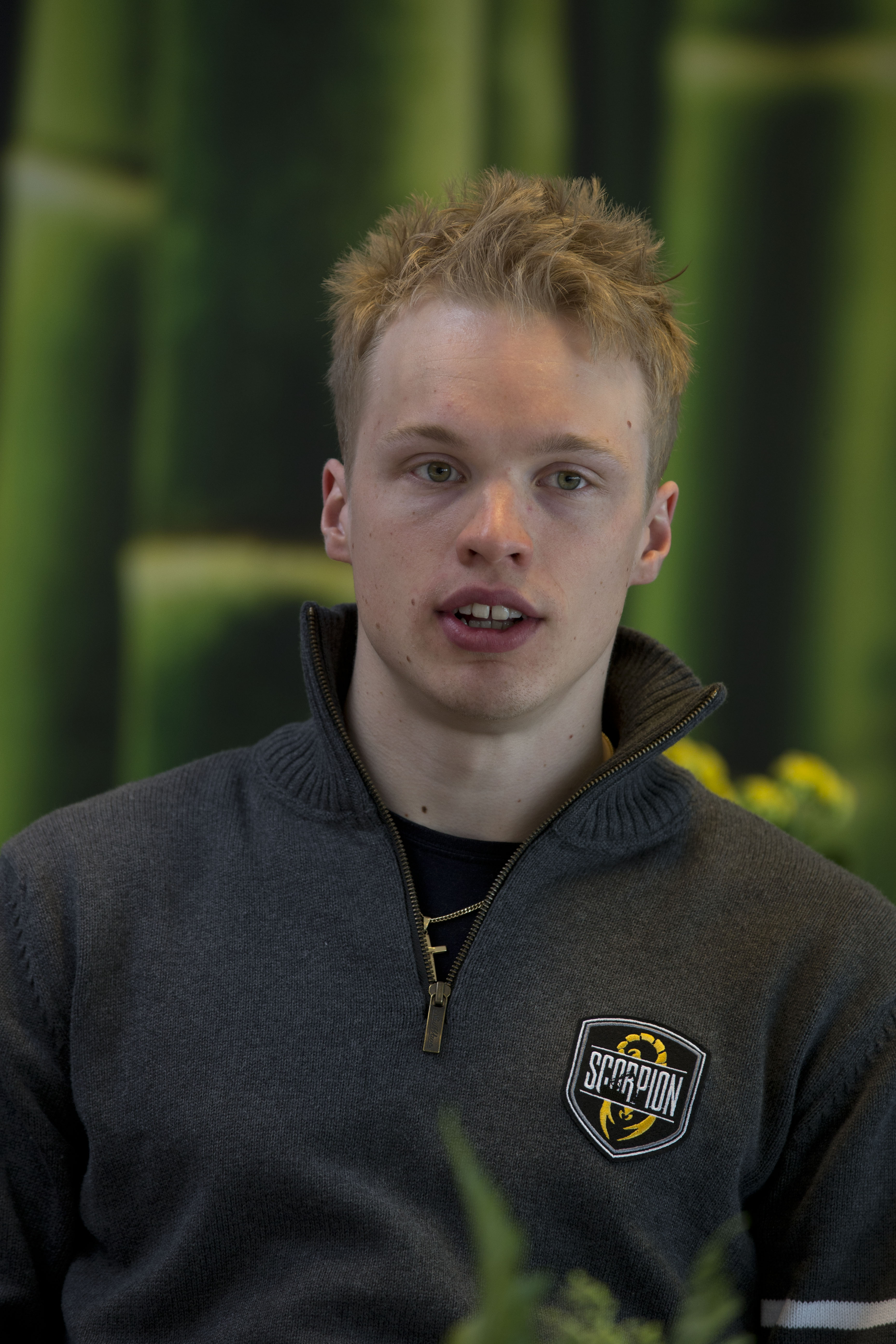 Finnish cross-country skier Iivo Niskanen.